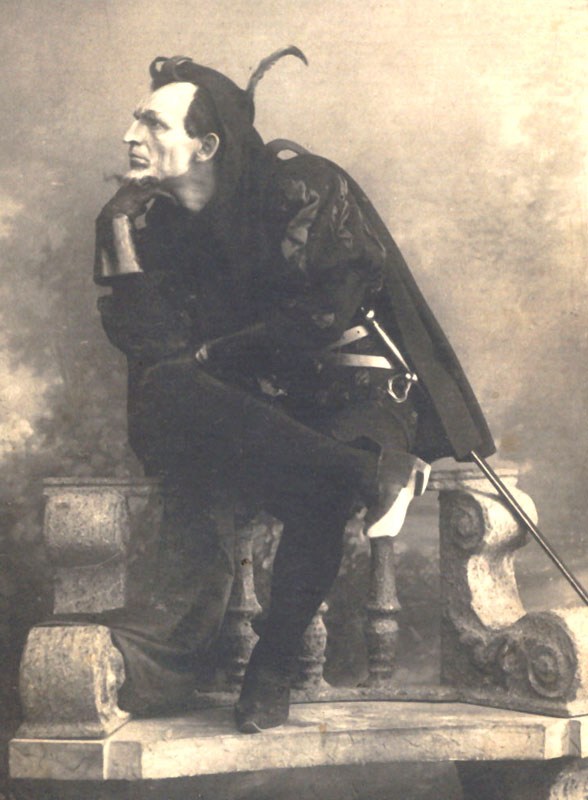 Platon Ivanovich Tsesevich as Mephistopheles